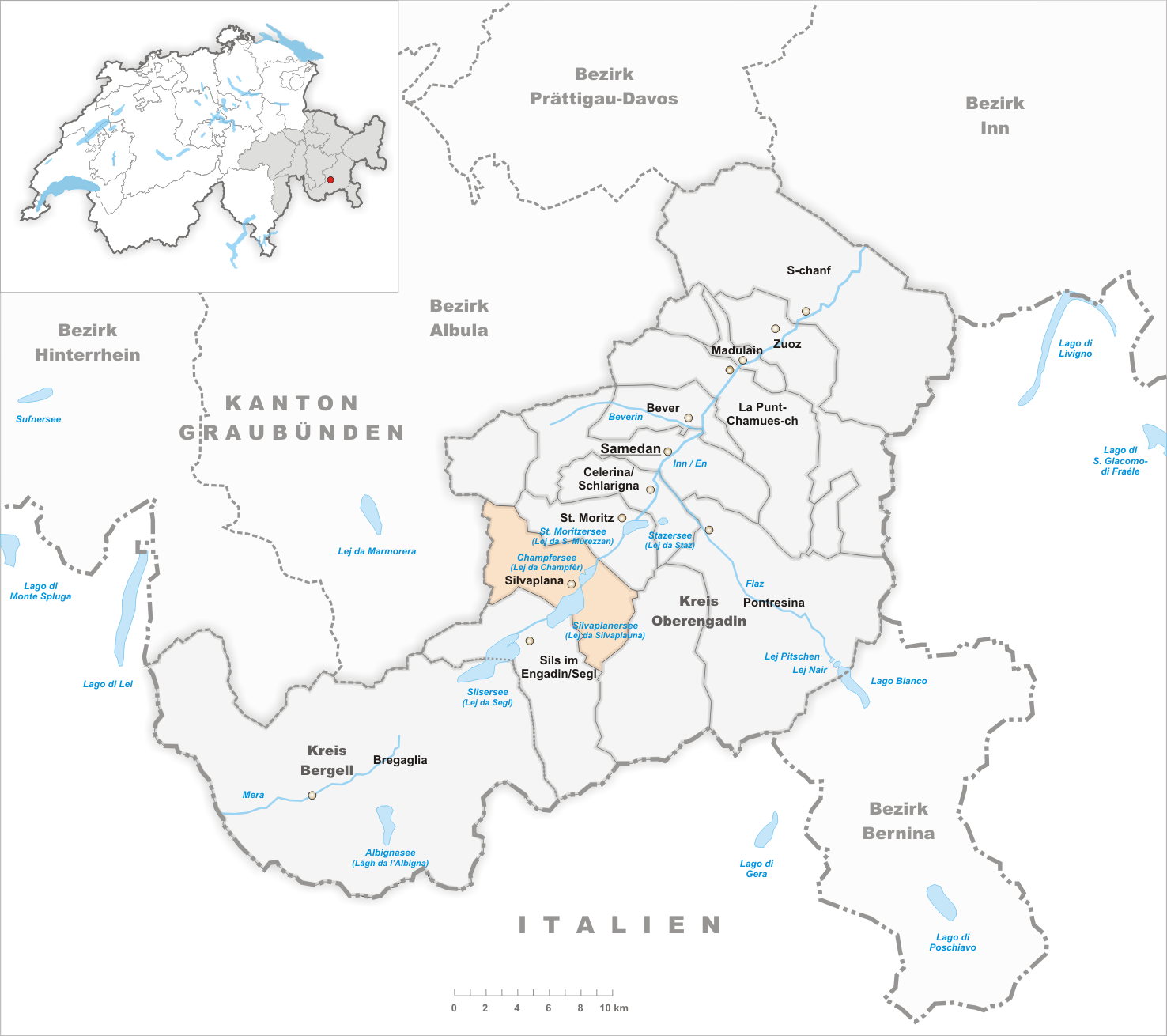 Municipality Silvaplana